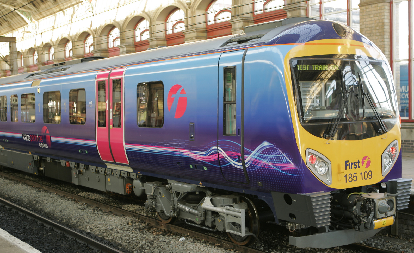 A British Rail Class 185 DMU in First TransPennine Express's new livery.